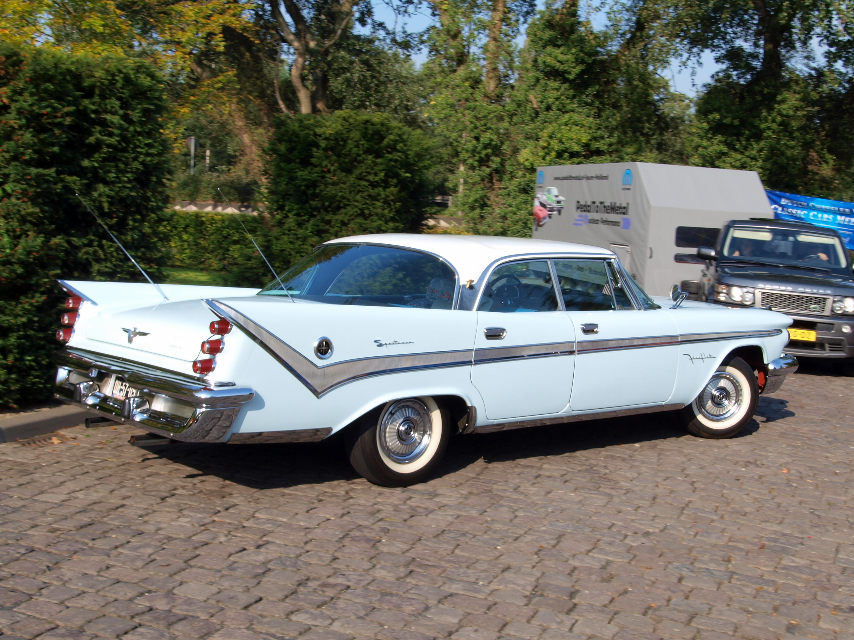 Photographed at the premises of the Louwman museum, The Hague, The Netherlands. This vehicle is a 1959 De Soto. OLYMPUS DIGITAL CAMERA